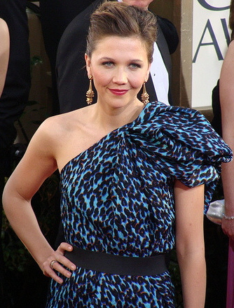 Maggie Gyllenhaal attending the 2009 Golden Globe Awards